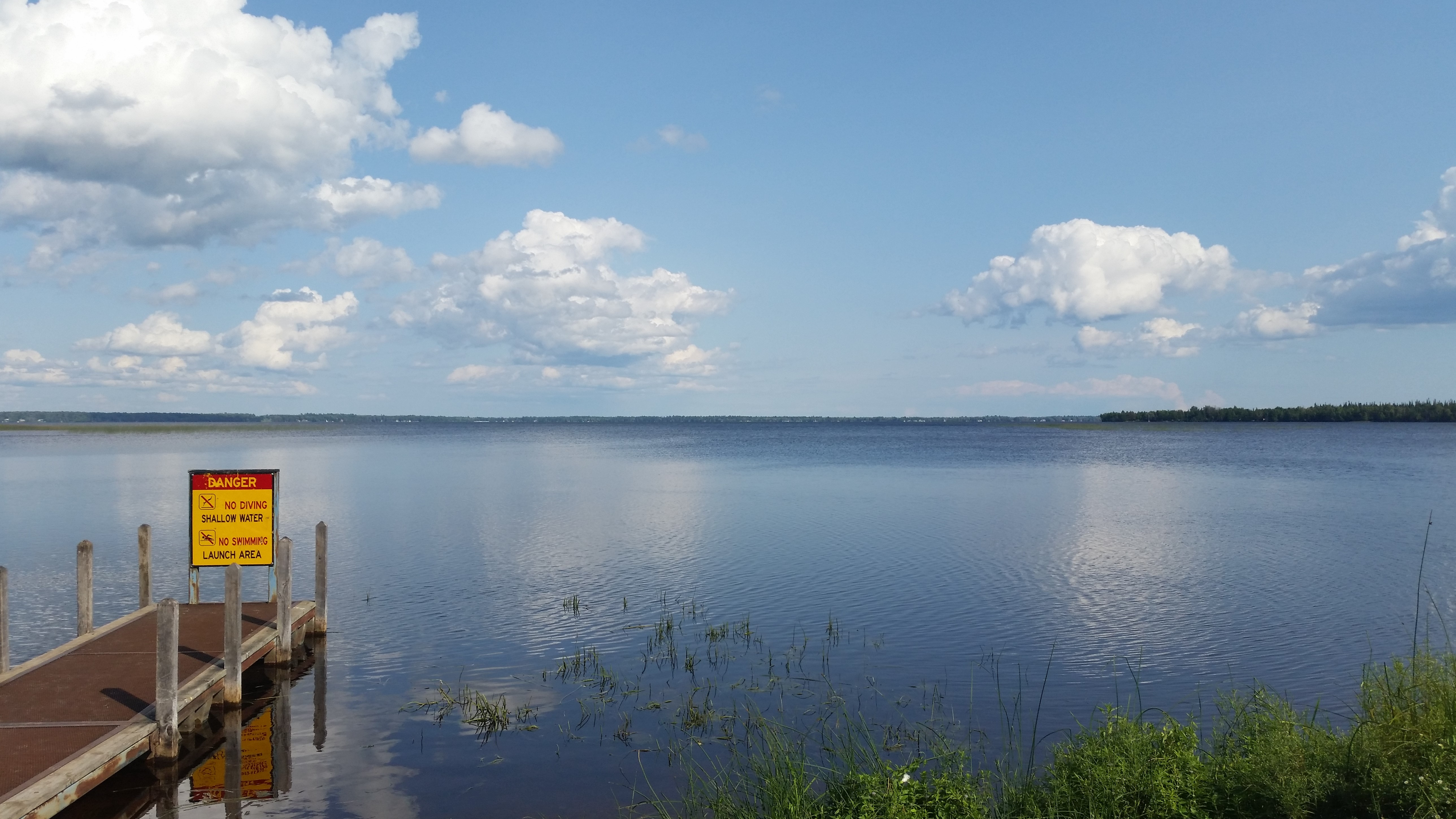 Depicted place: Indian Lake (Schoolcraft County, Michigan)